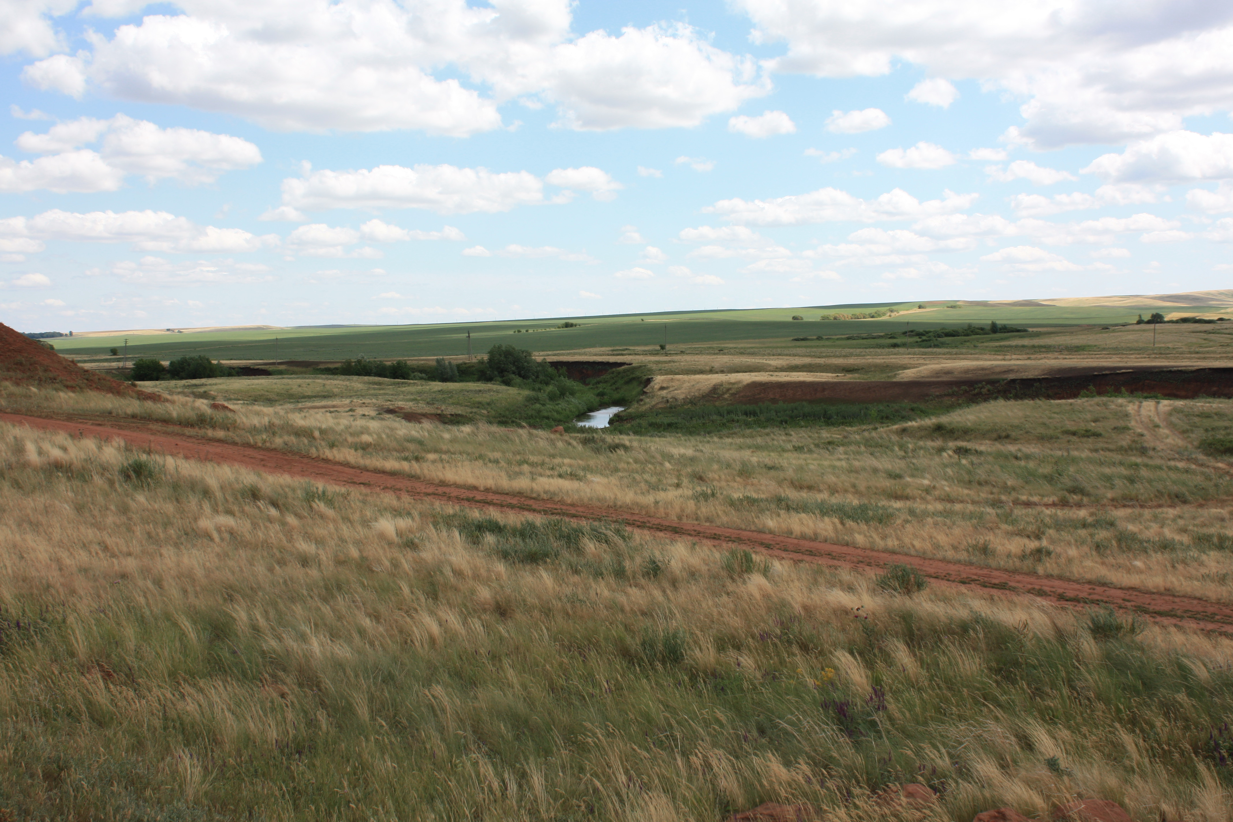 Bolshoy Uran River